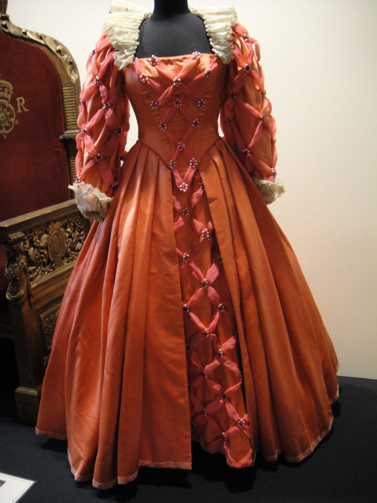 Bette Davis "Elizabeth I of England" royal gown from "The Virgin Queen" at the Debbie Reynolds Auction Breaks Up Historic Hollywood Collection (The Paley Center for Media in Beverly Hills, Los Angeles, CA, USA).